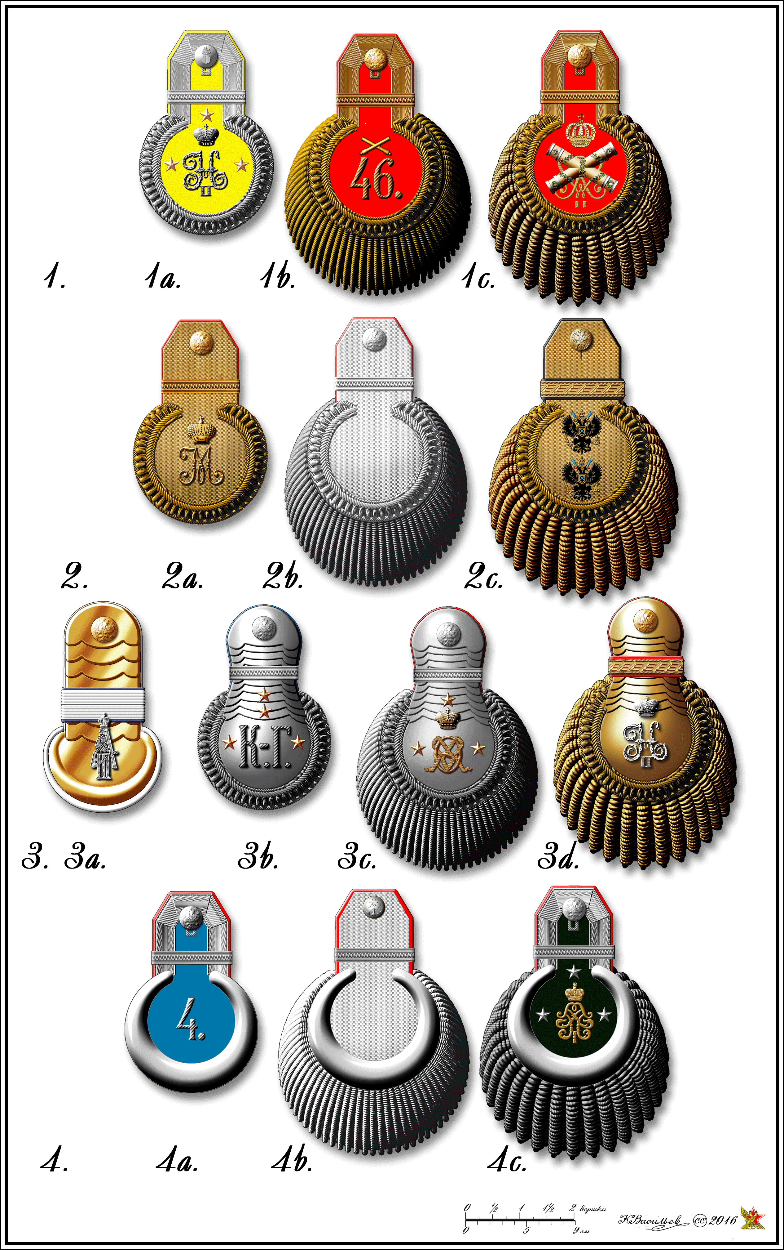 Russian Empire; rank insignia of the armed forces. Types of epaulette of the Russian Empire (classification not earlier than 1855; examples after 1904, for the cavalry after 1908): 1. Infantry 1a. Subaltern-officer, here: poruchik of the 13th Life Grenadier Erivan His Imperial Majesty's regiment. 1b. Staff-officer, here: polkovnik (colonel) of the 46th Artillery brigade. 1c. General, here: Field marshal of Russian Vyborg 85th infantry regiment of German Emperor Wilhelm II. 2. Guards 2a. Subaltern-officer, here: captain of the Mikhailovsky artillery school. 2b. Staff-officer, here: polkovnik (colonel) of Life Guards Lithuanian regiment. 2c. Flagofficer, here: Vice-Admiral. 3. Cavalry 3a. Of the lower ranks, here: junior unteroffizier of the 3rd Smolensk lancers HIM Emperor Alexander III regiment. 3b. Subaltern-officer, here: podyesaul of Russian Kizlyar-Grebensky 1st Cossack horse regiment, The Terek Cossack Host. 3c. Staff-officer, here: lieutenant-colonel of the 2nd Life Dragoon Pskov Her Imperial Majesty Empress Maria Feodorovna regiment. 3d. General, here: General of the cavalry, Adjutant General of the Emperor. 4. Others 4a. Subaltern-officer, here: Veterinary physician on Titular councillor position. 4b. Staff-officer, here: flagship mechanical engineer, of Fleet Engineer Mechanical Corps. 4c. General, here: Privy councillor, Professor of the Imperial Military medical Academy.